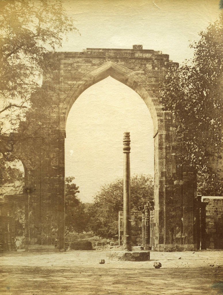 The iron pillar of Delhi, India is a 7 meter (22 feet) high pillar in the Qutb complex which is notable for the composition of the metals used in its construction.